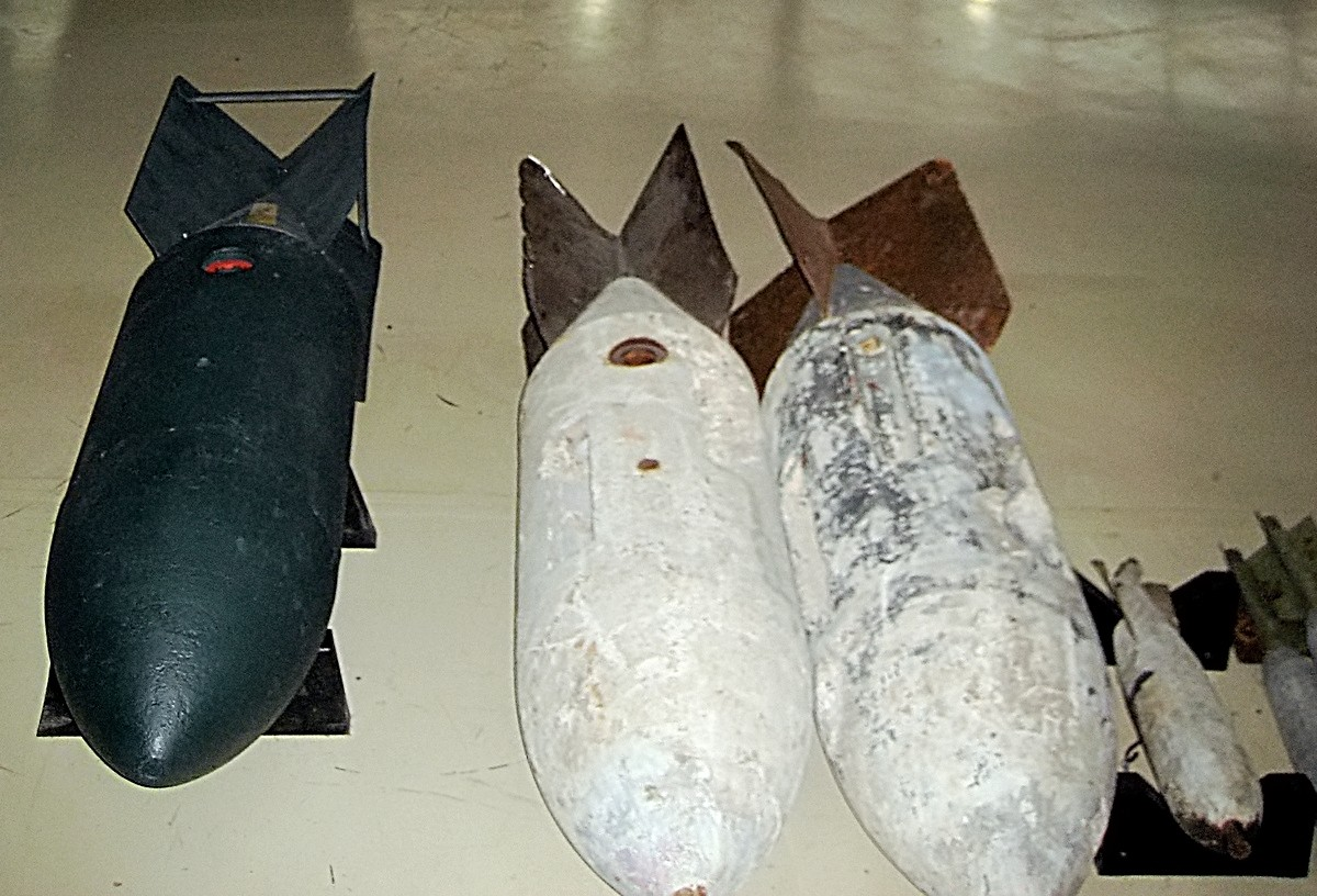 WW2 German air force bombs. L to R, 250kg SC 250, two 250kg concrete practice bombs, 50kg concrete practice bombs (edge of photo to right). The red circle on top of the bombs is well for the detonator.